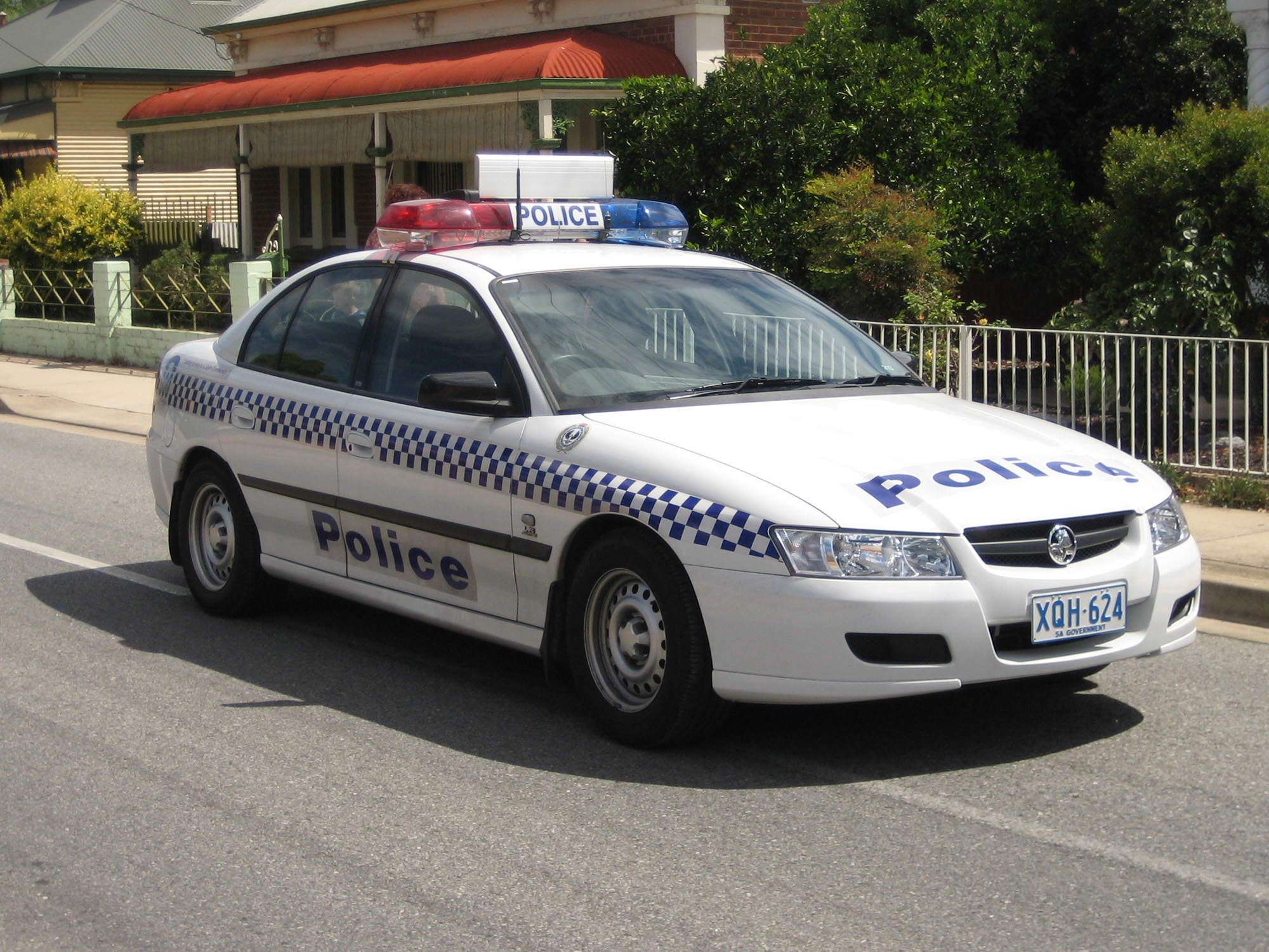 An Australian police vehicle Holden VZ Commodore.